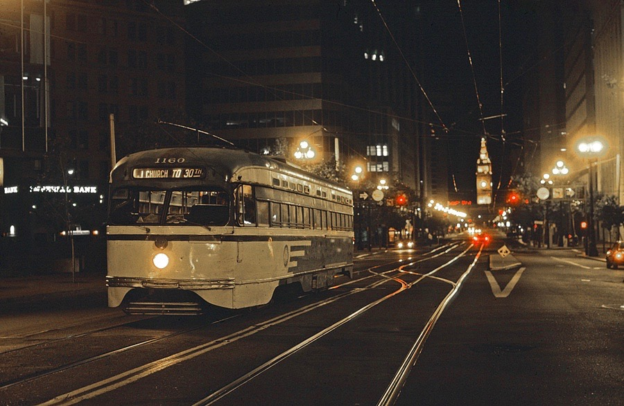 San Francisco Muni PCC streetcar 1160 outbound on Market Street on the J-line, late at night on September 19, 1982, which, at the time, was the final day of service for PCC cars in San Francisco and of streetcar operation on the surface of Market Street. In summer 1983, however, the first San Francisco Historic Trolley Festival returned streetcar service to the surface of Market Street – in the form of the F-line (but only part-time) – with a variety of cars, including two PCCs, and in 1995 many more PCCs (mostly ex-Philadelphia cars, not previously in service in S.F.) began service on Market Street, as the F-line became a regular, all-day service.